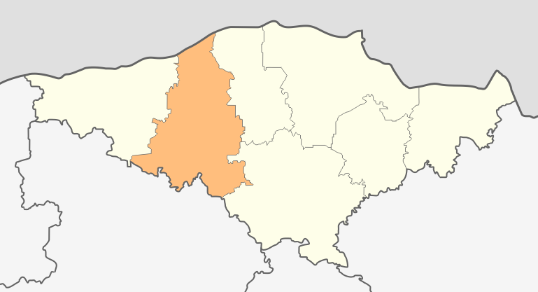 Map of Glavinitsa municipality, Silistra Province